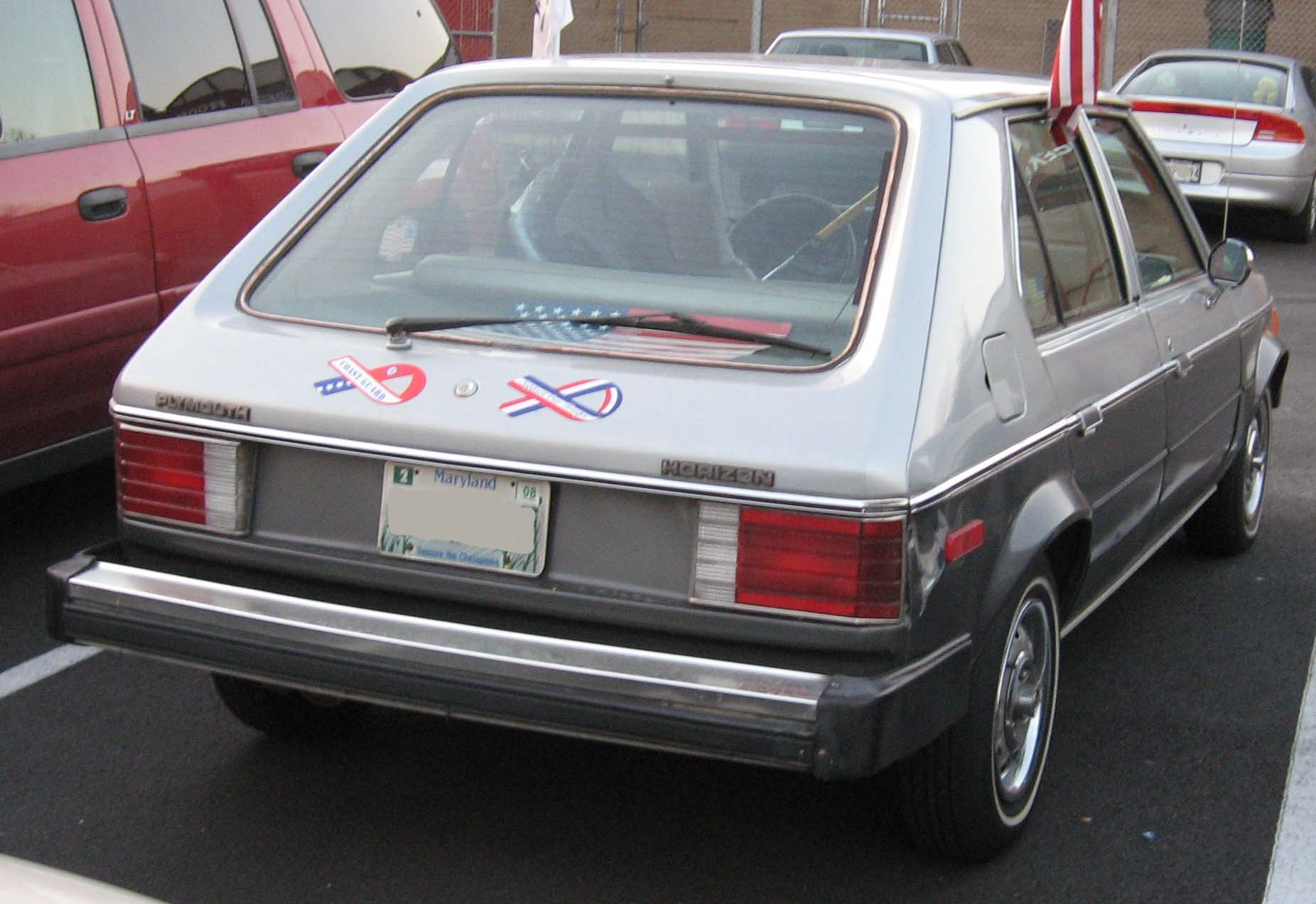 Plymouth Horizon photographed in USA.